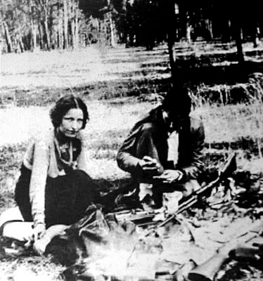 B.P. i C.B. at field